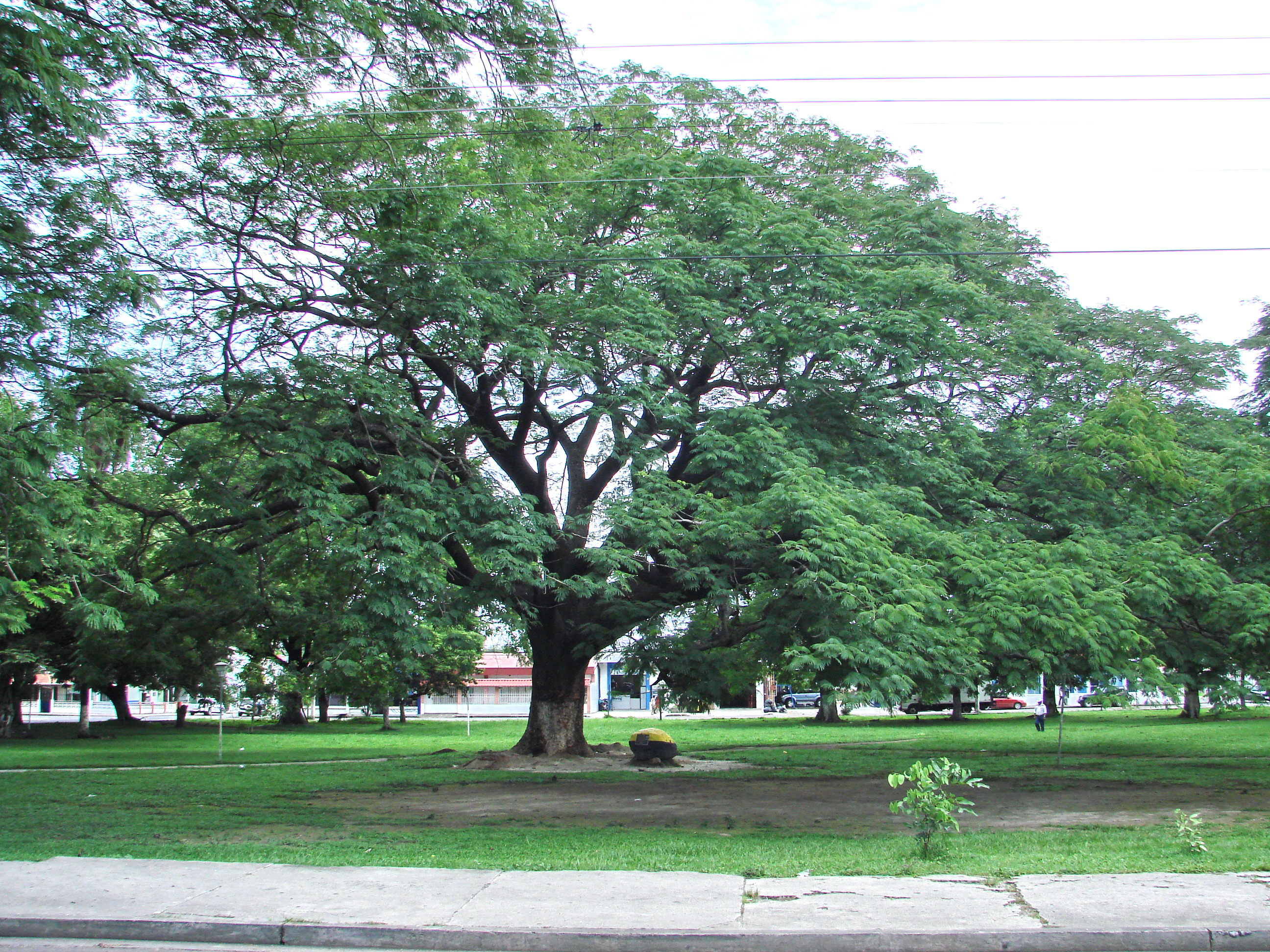 Guanacaste tree, Enterolobium cyclocarpum, Liberia, Costa Rica